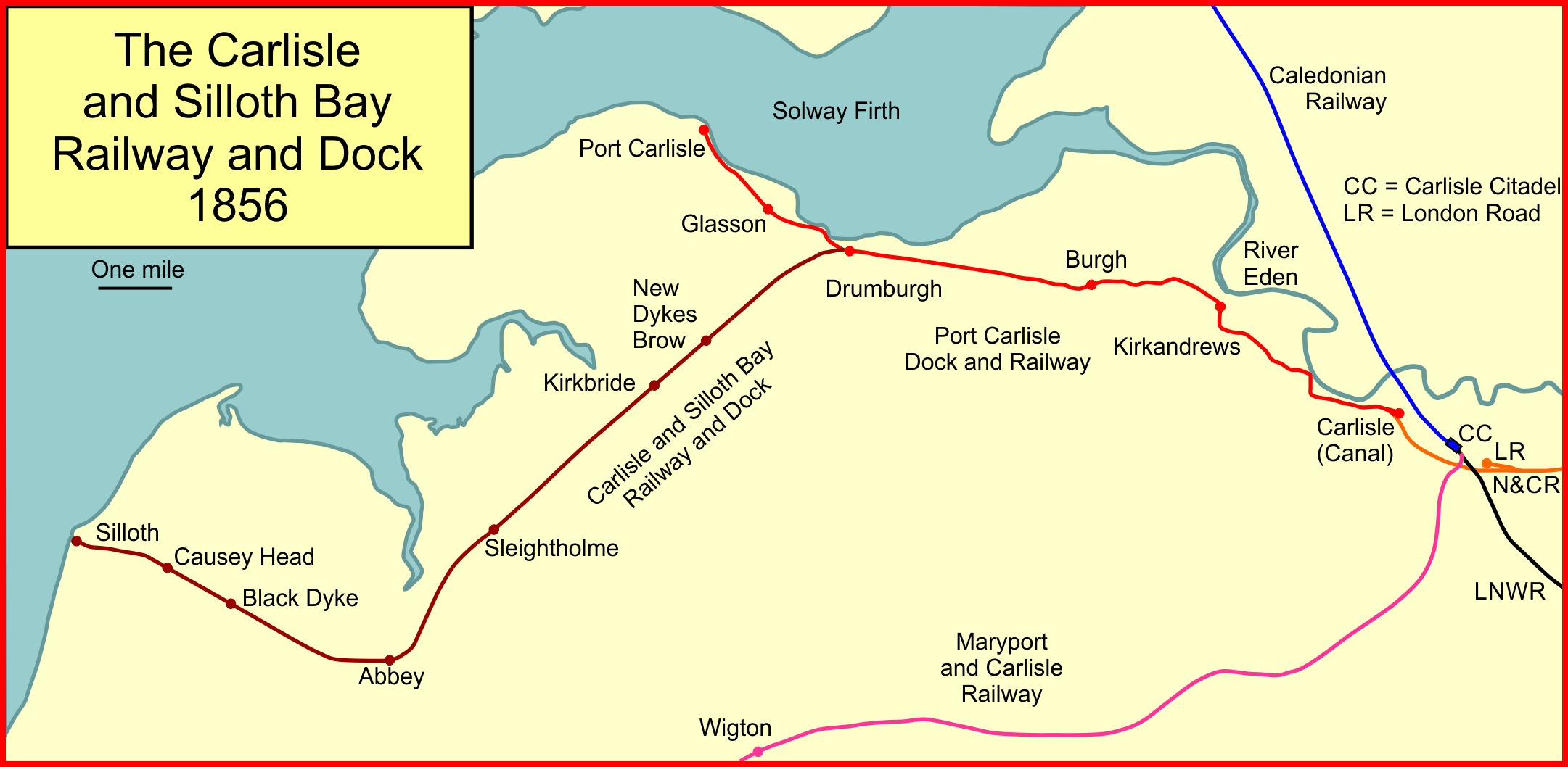 System map of the Carlisle and Silloth Bay Railway and Dock company, Cumberland, England in 1856